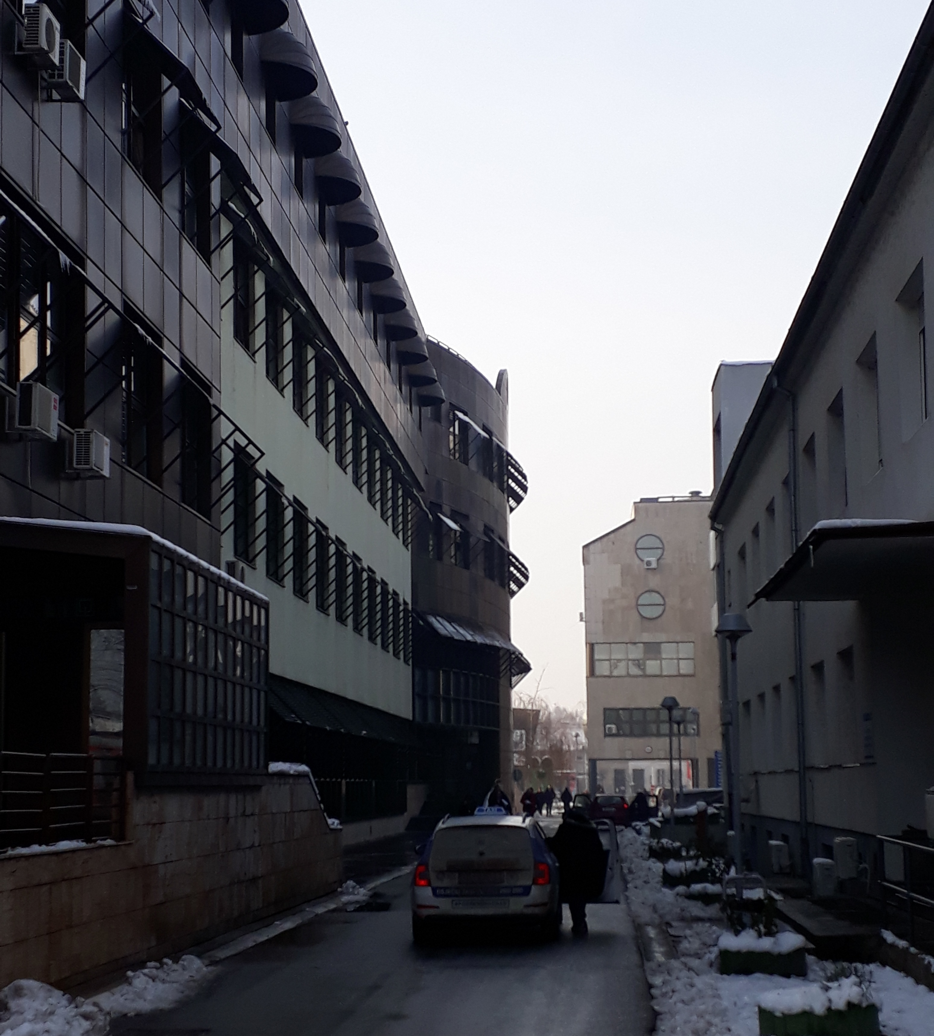 Campus of University Hospital Osijek, Croatia